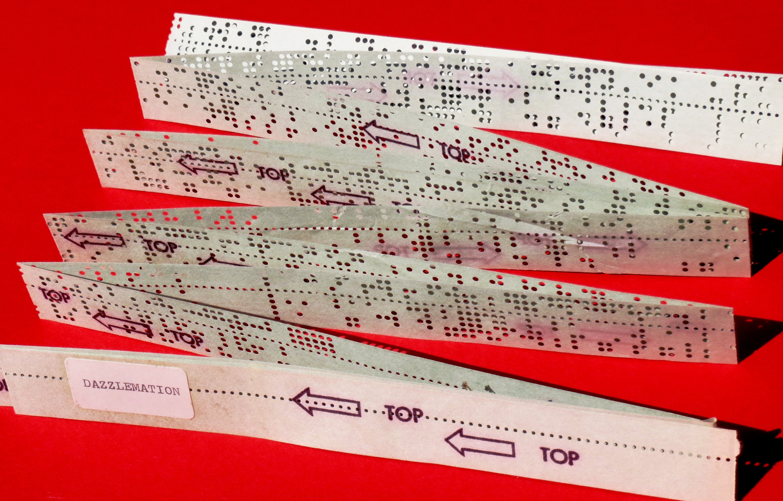 Cromemco Dazzlemation program for the Cromemco Dazzler on punched paper tape.